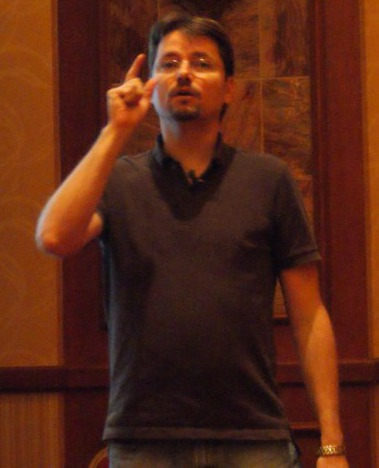 Thursday workshop - D.J. Grothe